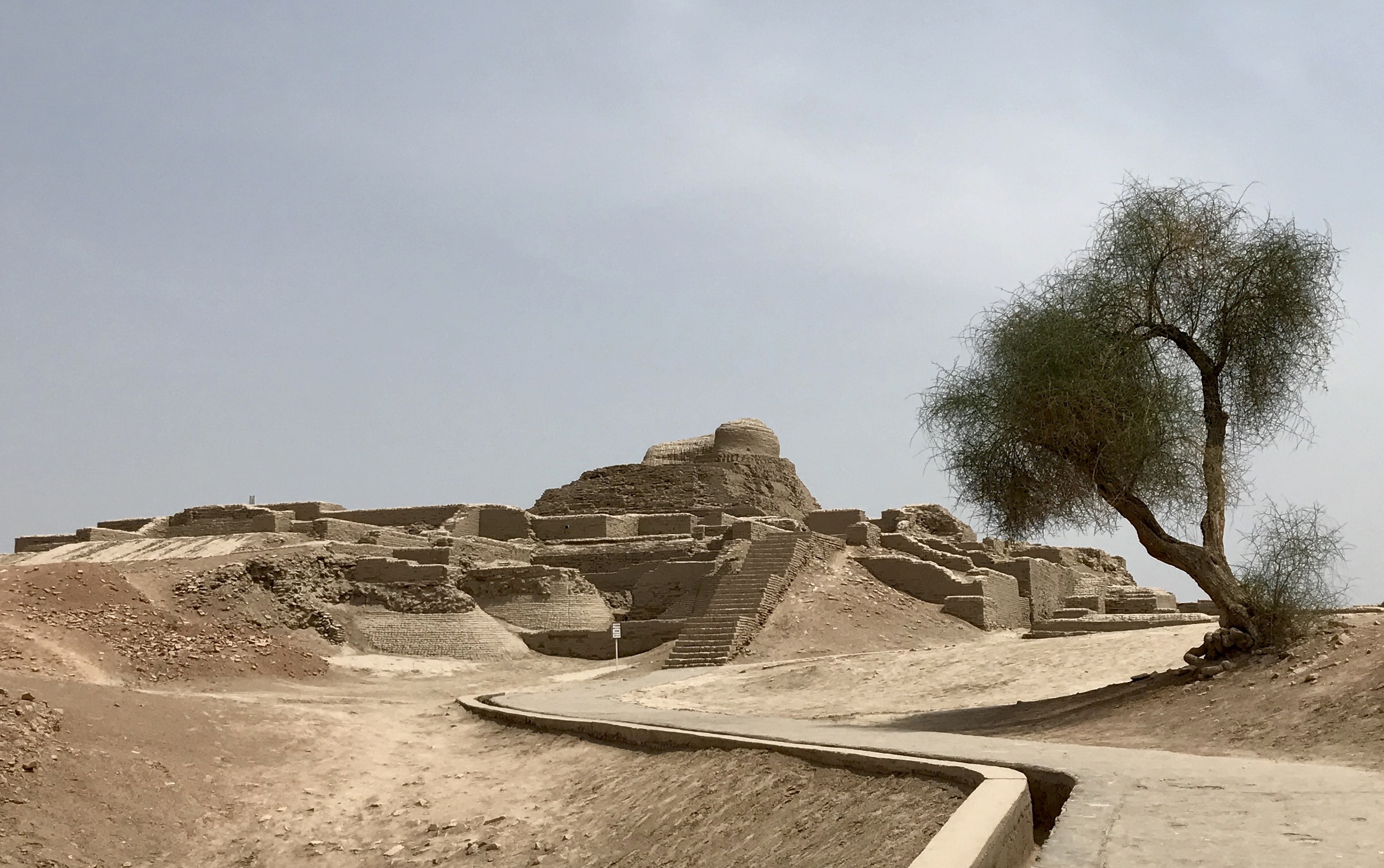 Buddhist Stupa This is a photo of a monument in Pakistan identified as the SD-41